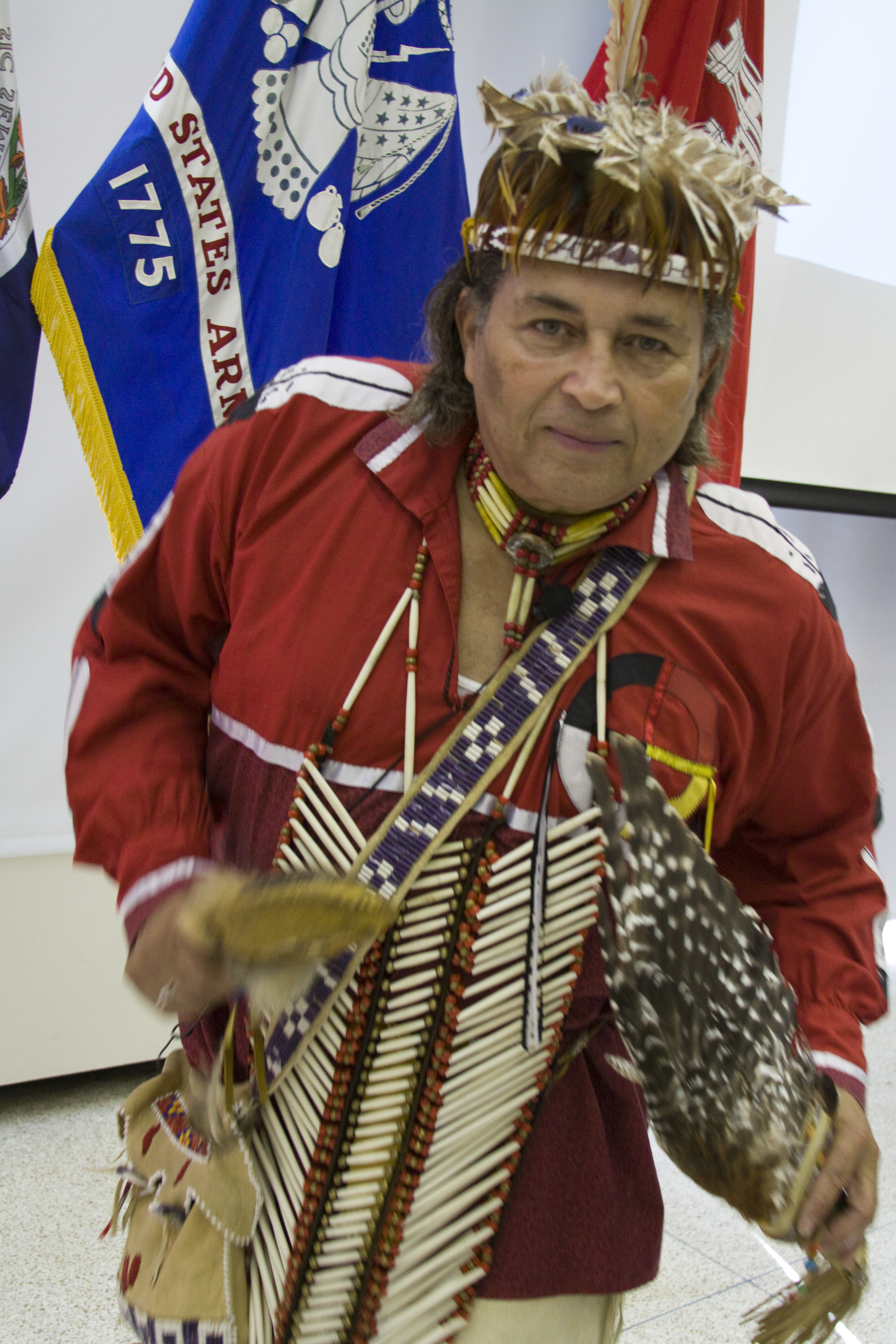 Chief Walter D. “Red Hawk” Brown, III and other tribal members of the Cheroenhaka (Nottoway) Tribe perform a tradition tribal dance before speaking to employees of the Norfolk District, U.S. Army Corps of Engineers about the history of his people on Dec. 9. The speech and performance is part of the Norfolk District’s Native American/Alaskan Heritage Month celebration. (U.S. Army Photo by Patrick Bloodgood)